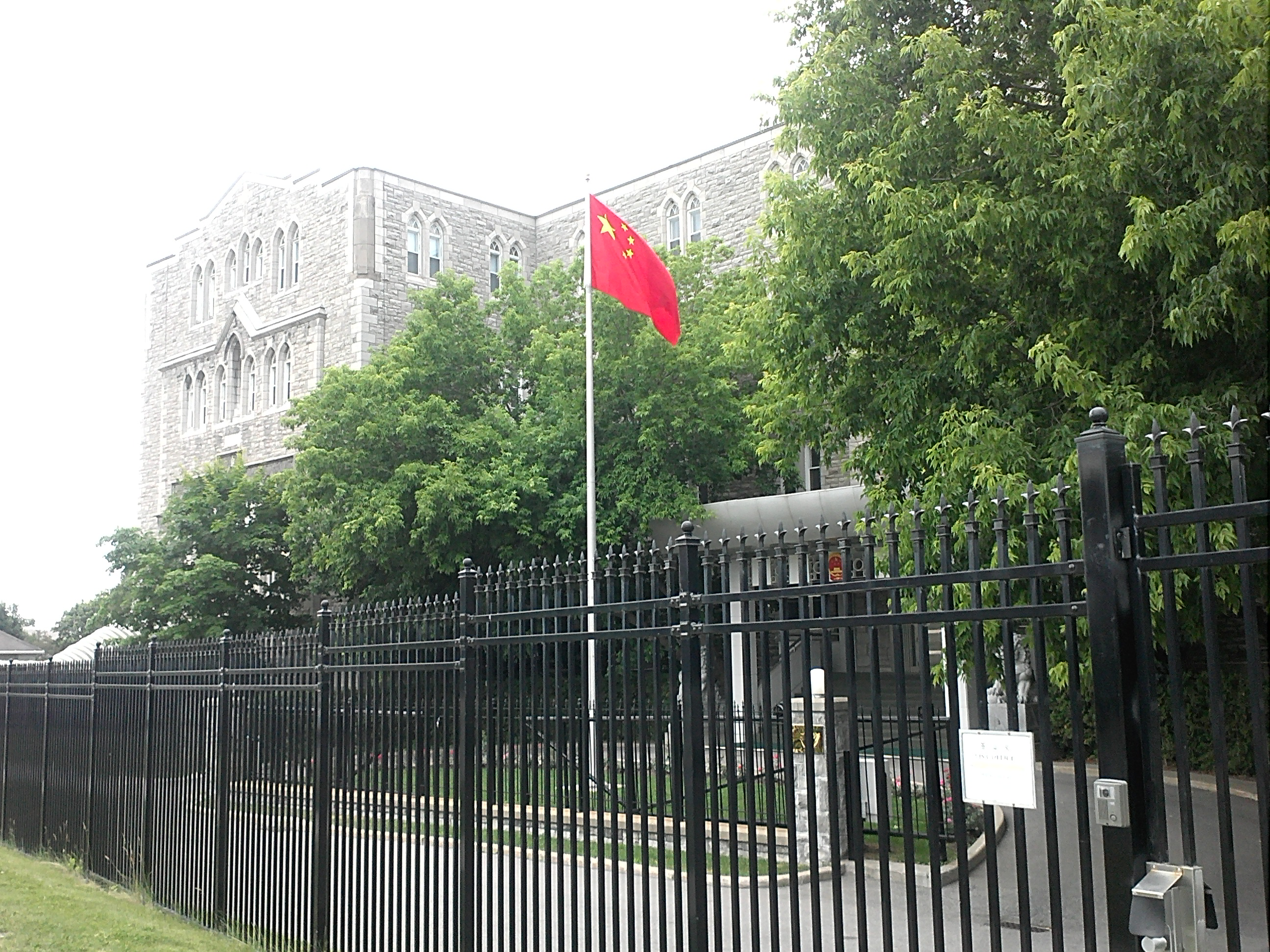 Embassy of the People's Republic of China Ottawa in June 2012.